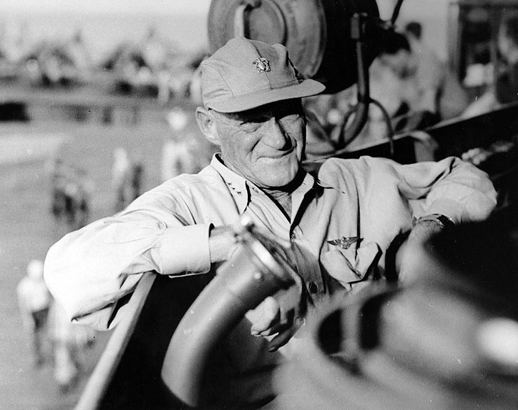 U.S. Navy Vice Admiral Marc A. Mitscher, Commander, Task Force 58, on board his flagship, the aircraft carrier USS Lexington (CV-16), at the time of the Marianas campaign, June 1944.